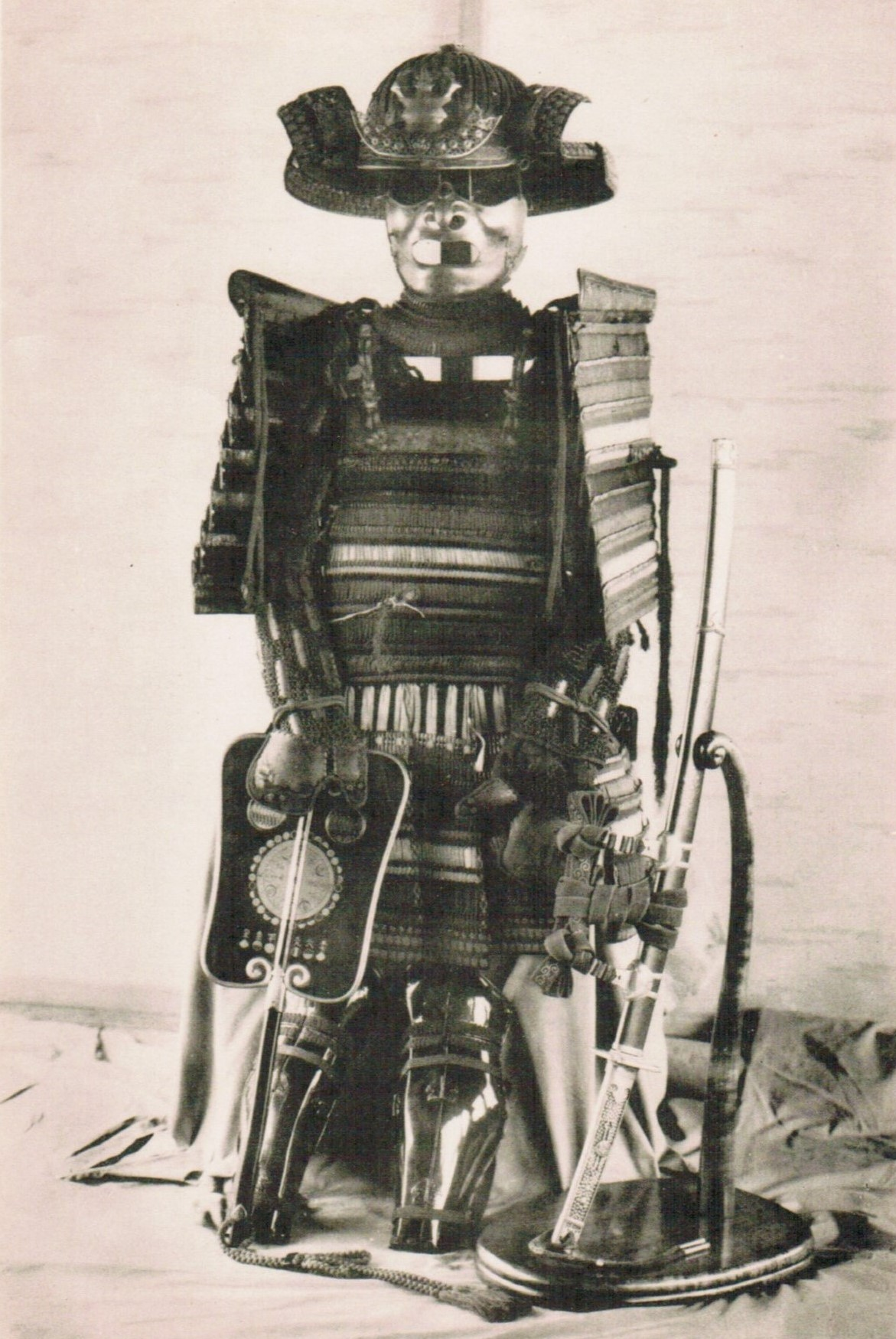 A domaru armor of Sakai Tadatsugu, the collection of Chidō Museum, Tsuruoka, Yamagata prefecture. An Important Cultural Property of Japan.